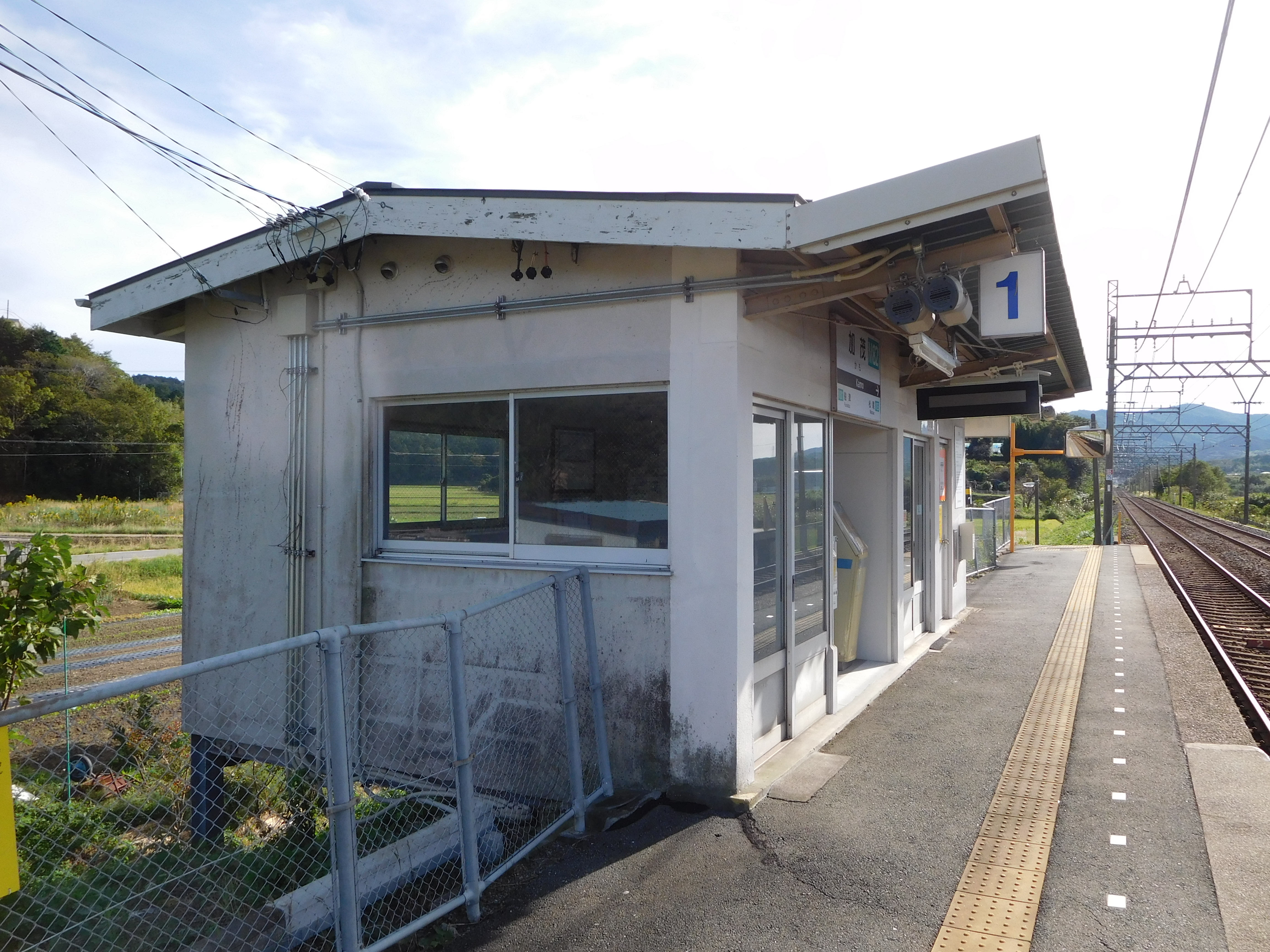 This is the waiting room of Kintetsu Kamo station in Toba, Mie, Japan.